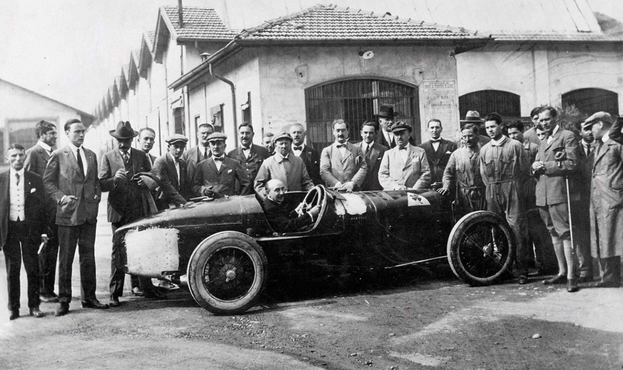 Nicola Romeo in 1924 Alfa Romeo P2, a new racing car they made this year. Behind the cloverleaf is Giuseppe Campari (suit and caps), to his right are engineers Luigi Bazzi (leaning on radiator) and Giulio Ramponi, both in their working overalls.Location is unknown, but the shape of the roofs look similar to the Portello plant (Alfa Romeo factory).Time is unknown. One source states: "The first engine was bench tested in March 1924 and the first car completed in early June (2 June:[1]); in all six were produced. After initial tests at Monza the car was run over the Parma-Poggio de Berceto road course by team drivers Giuseppe Campari and Antonio Ascari, but the car won at Cremona on 9 June 1924"[2] Ascari (winner at Cremona) is not in this picture. May/June 1924?